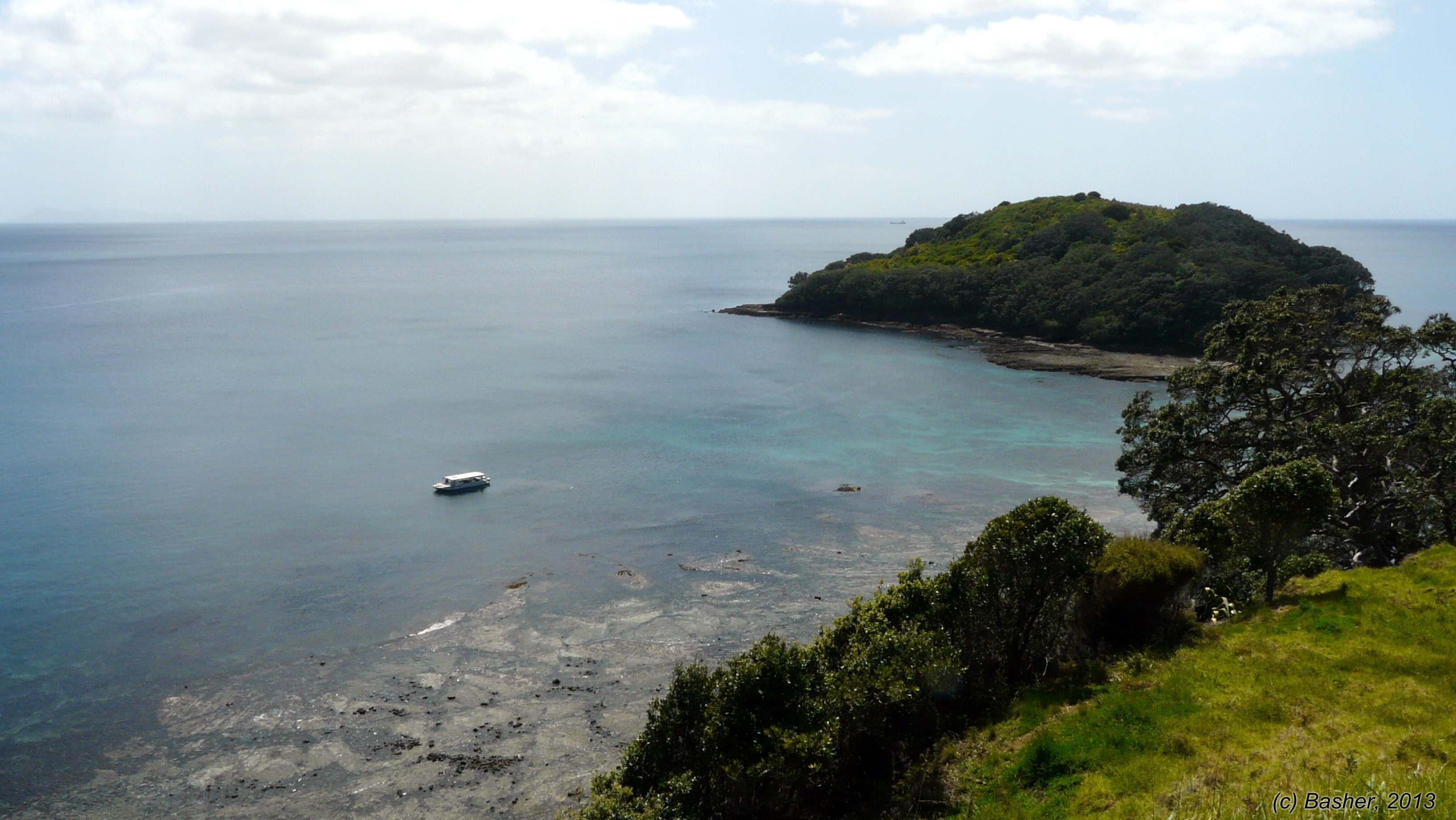 Glass bottom boat in the Goat Island Marine Reserve (Leigh, Warkworth, New Zealand) in a very calm day.